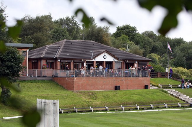 Prestwich Cricket, Tennis & Bowling Club main building